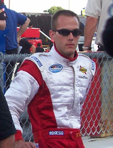 NASCAR Nationwide Series driver J. C. Stout at the 2009 race at the Milwaukee Mile.